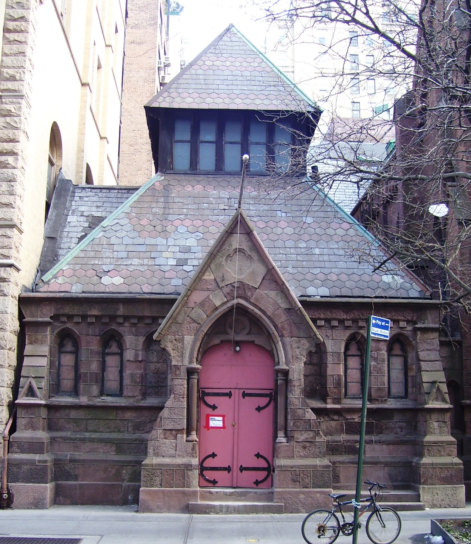 The parish of Calvary Church was founded in 1832 and used a wood-framed church in uptown Manhattan on Fourth Avenue (which later became Park Avenue) for its services. In 1842, that building was moved to the current site, at 273 Park Avenue South on the corner of East 21st Street, and in 1848, the parish's current sanctuary, designed by James, Renwick, Jr., was completed. This building, which sits to the north of the church, was designed by Renwick to be a theatre for the church, and was used as that for a short while. It is nicknamed the "Renwick Gem". (Sources: From Abyssinian to Zion (2004), AIA Guide to NYC (4th ed.))